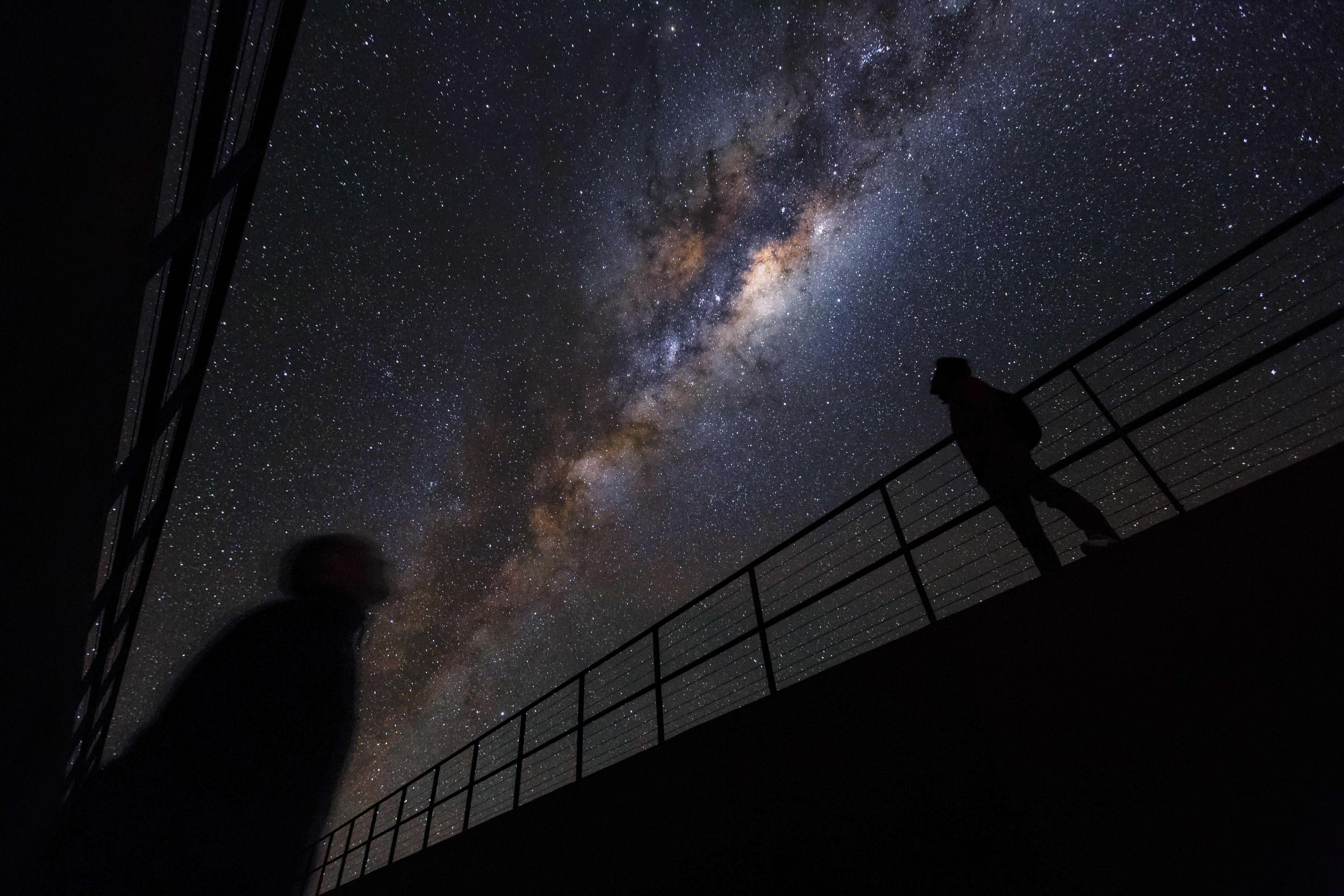 Deep in the Chilean Desert, astronomers staying at ESO’s La Residencia, the VLT Observatory's hotel, witness a skyscape like few others on Earth. Designed by the German architects Auer+Weber+Assoziierte, La Residencia provides an oasis for those working at ESO’s Paranal Observatory. The Atacama Desert is one of the harshest landscapes imaginable. Extreme dryness, intense ultraviolet radiation from the Sun, and high altitude are a normal part of everyday life. However, come nightfall, La Residencia experiences some of the best observing conditions in the world. La Residencia and ESO’s Very Large Telescope (VLT) — housed at the Paranal Observatory — are far from sources of light pollution, and experience exceptionally clear atmospheric conditions. On moonless nights, the sky can be so clear and dark that light from the Milky Way casts a shadow on the ground! These factors permit high quality scientific observations to be made as well as offering amazing conditions for astrophotography, exemplified in this stunning shot taken by Luis Calçada, a motion graphic designer at ESO’s headquarters in Garching, Germany. In this photograph, the plane of the Milky Way can be seen above La Residencia, as passing staff members take a moment to admire the spectacular sight.